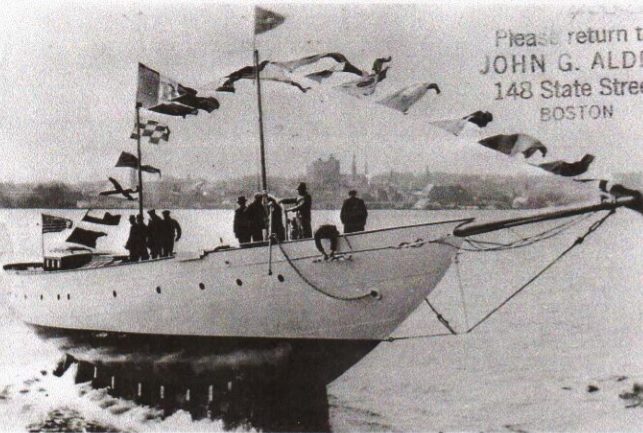 Launch of Puritan in 1931